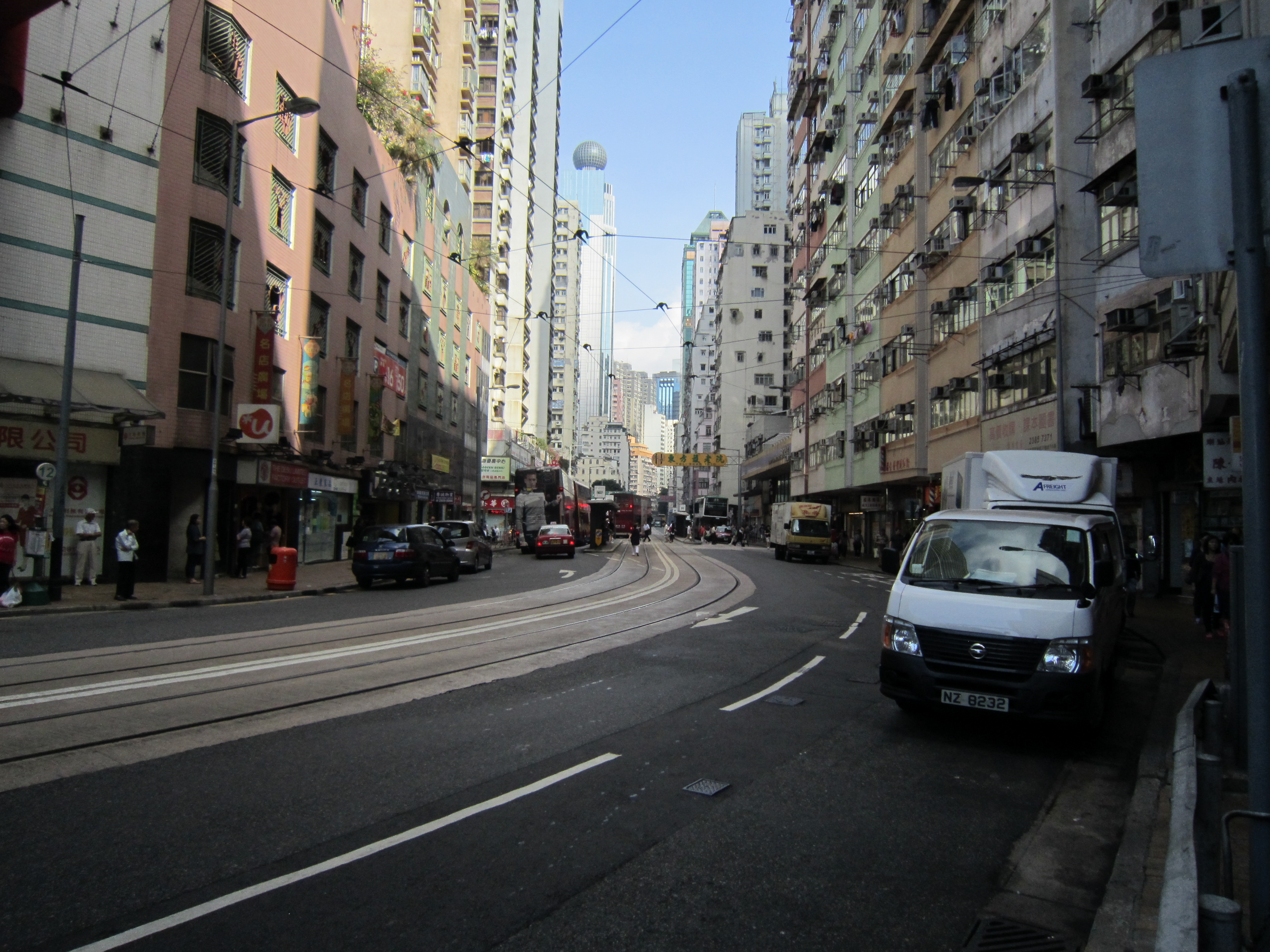 Des Voeux Road West Shek Tong Tsui section